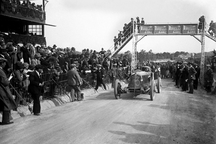 Giuseppe Campari in Alfa Romeo RL ("RL Targa Florio"), entry #33 at Targa Florio on 27 Aprile 1924. The race was 432 kilometers, and Campari ended in 4th place.[1] It was claimed that the same car (chassis TF11) was owned by Giovanni Lurani for many years, and for sale by Kidston in 2019.[2]